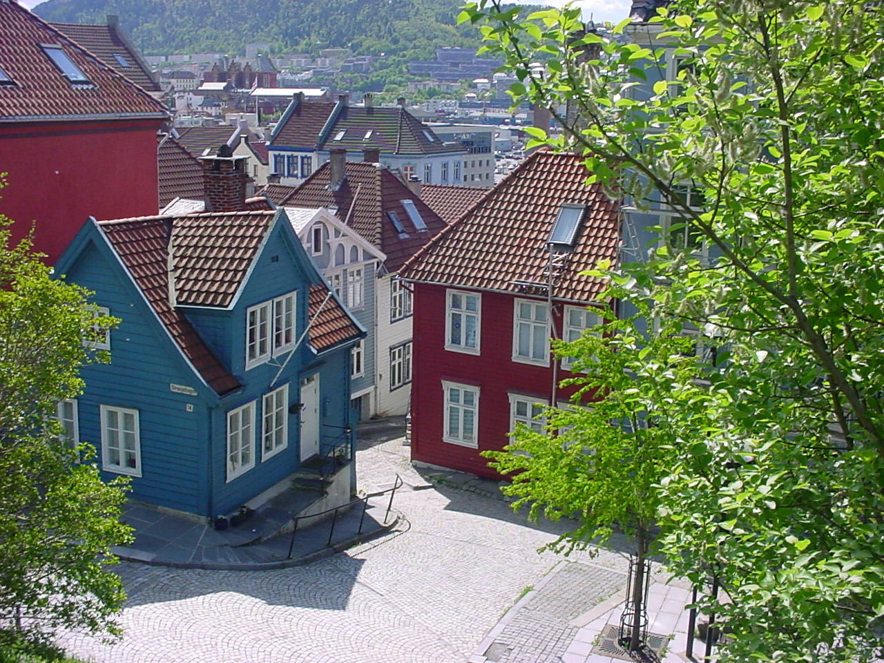 The street Strangehagen, looking towards the narrow passage of Trangesmauet in Bergen, Norway